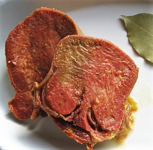 Cooked beef tongue slices